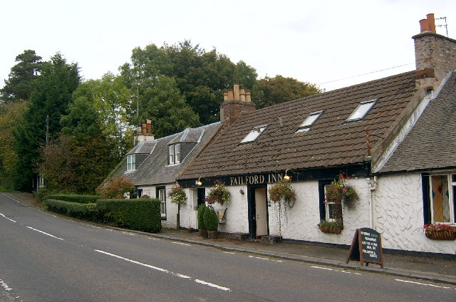 The Failford Inn, Ayrshire. The hub of the village - the Failford Inn is a favourite for walkers because it welcomes dogs too!